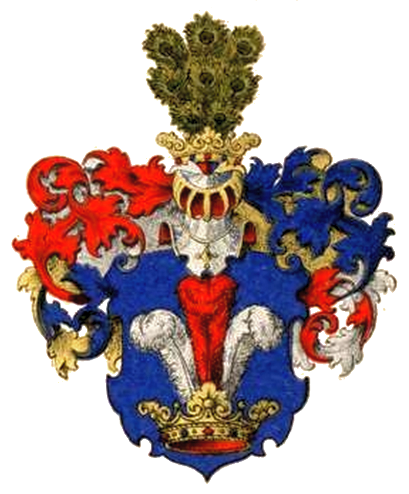 Coat of Arms of Baron Kluechtzner family